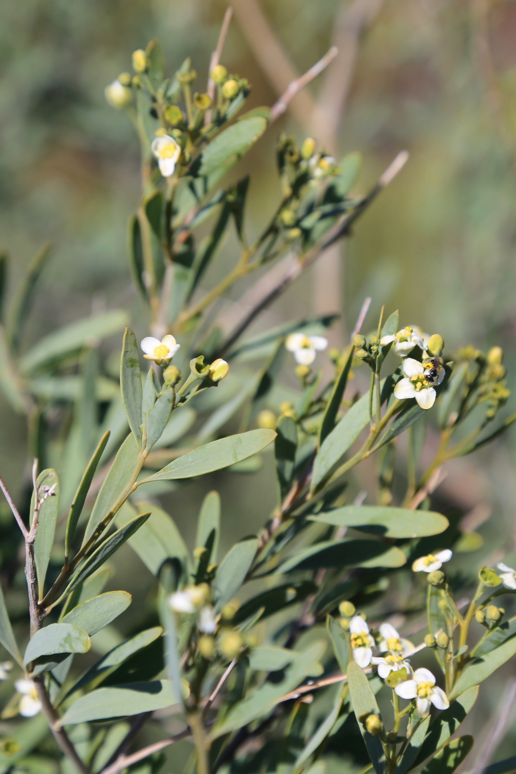 Along R363, Clanwilliam, Western Cape, South Africa